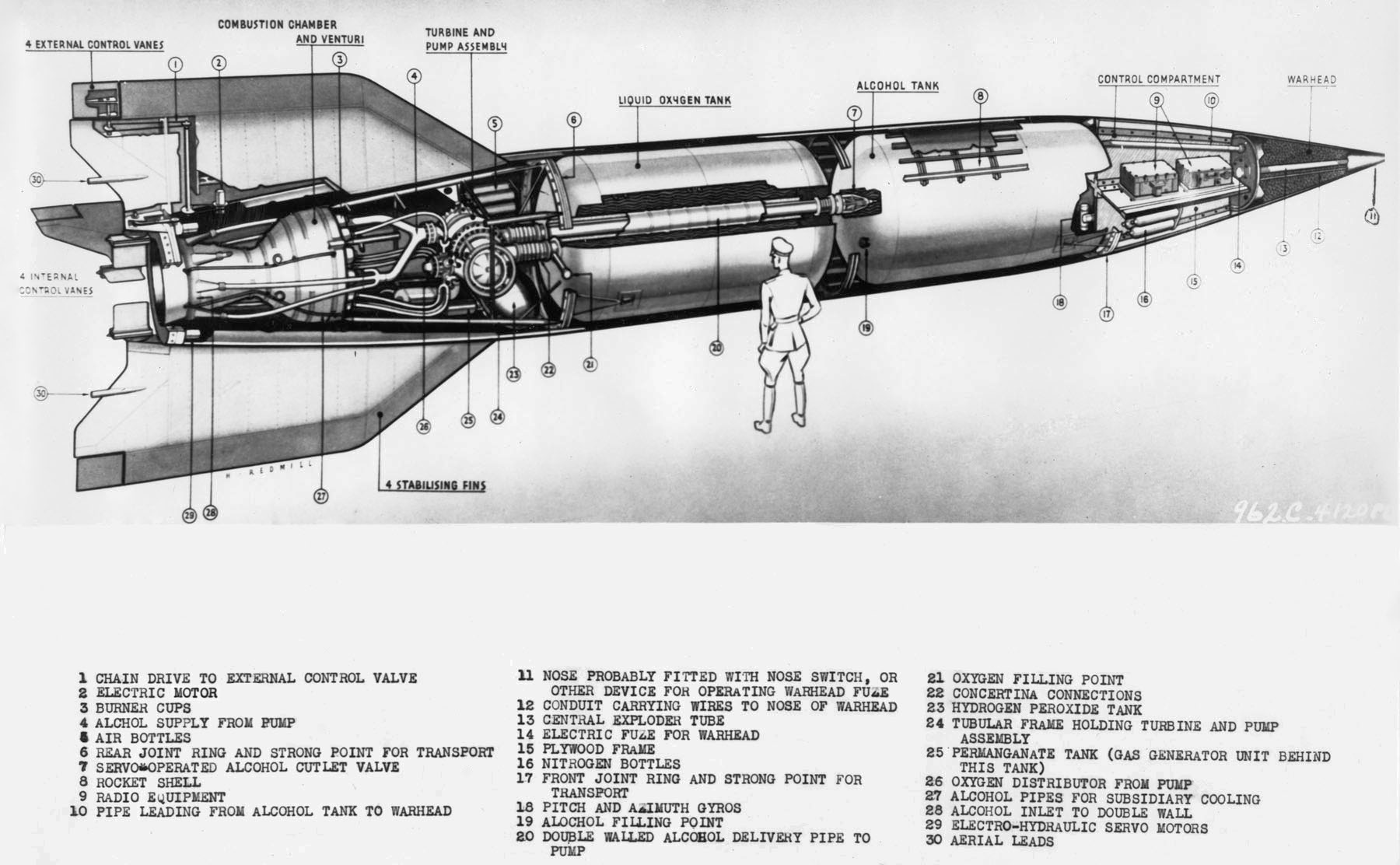 U.S. Army V-2 cutaway drawing showing engine, fuel cells, guidance units and warhead. (U.S. Air Force photo)